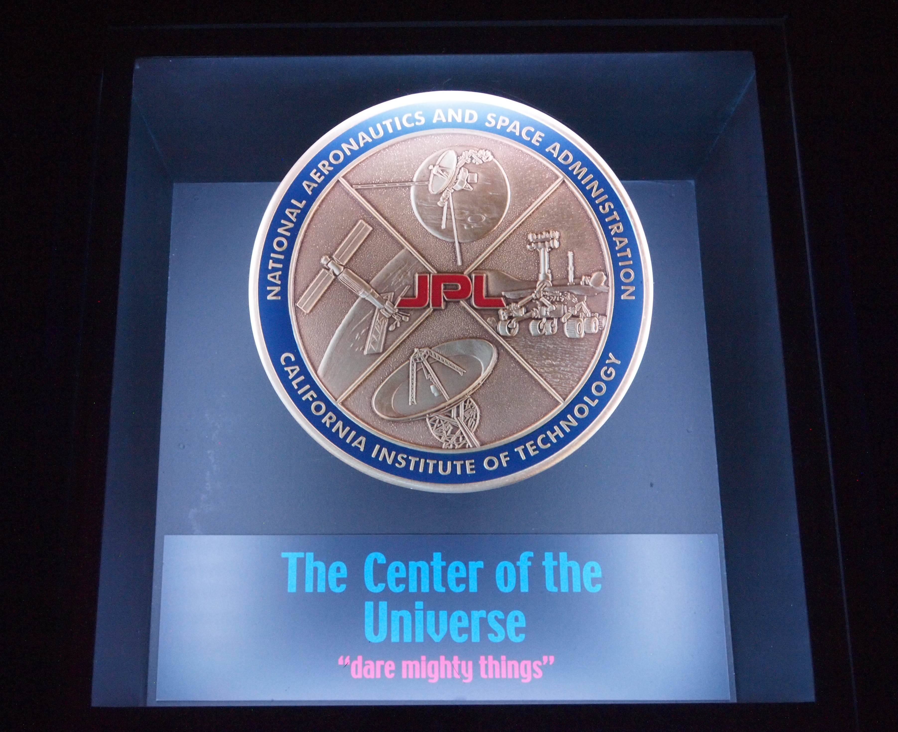 The plaque on the floor in the middle of the control room at the Space Flight Operations Facility, Jet Propulsion Laboratory in Pasadena, California